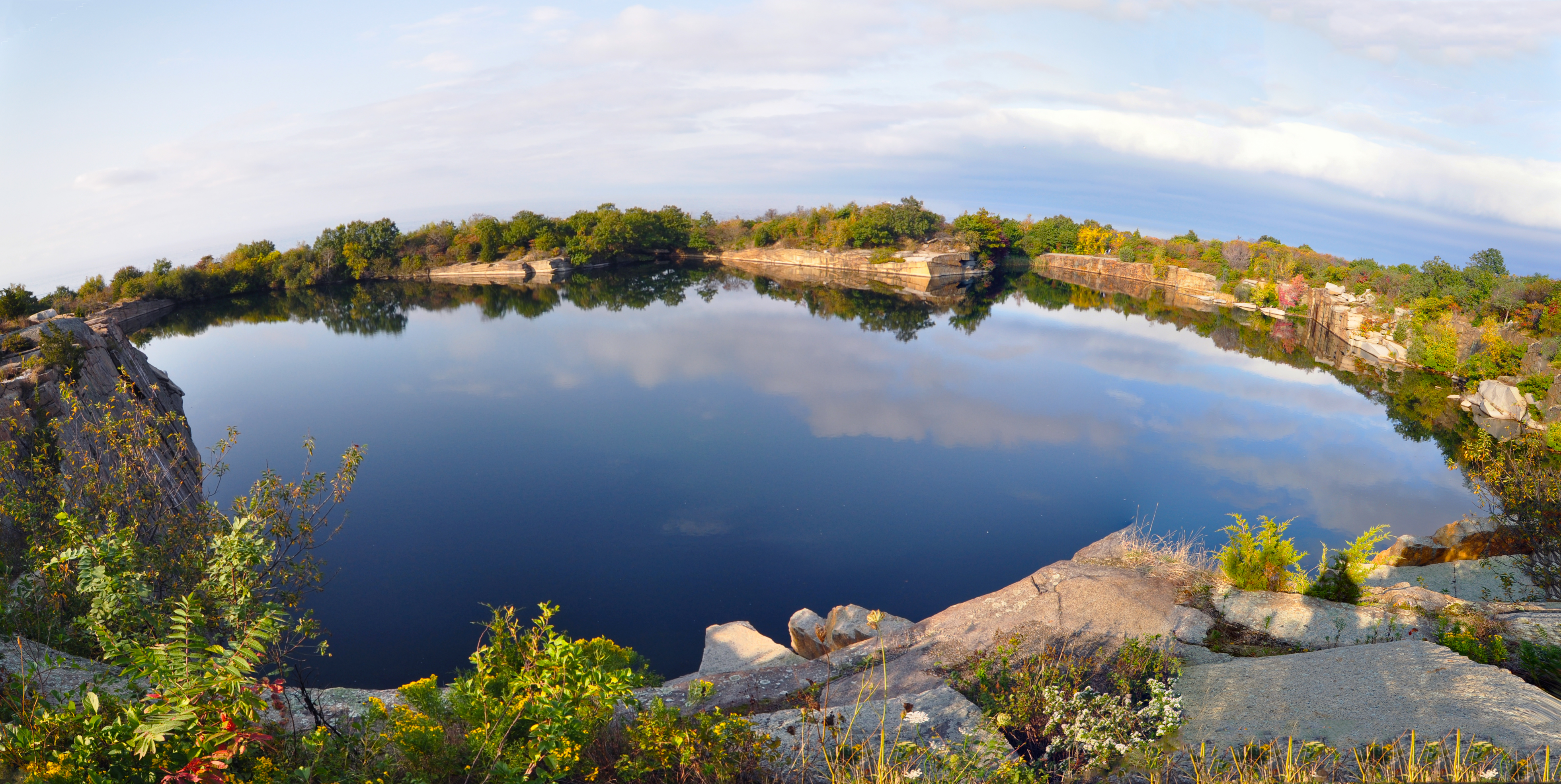 Filled quarry in Halibut Point State Park, Rockport, Massachusetts